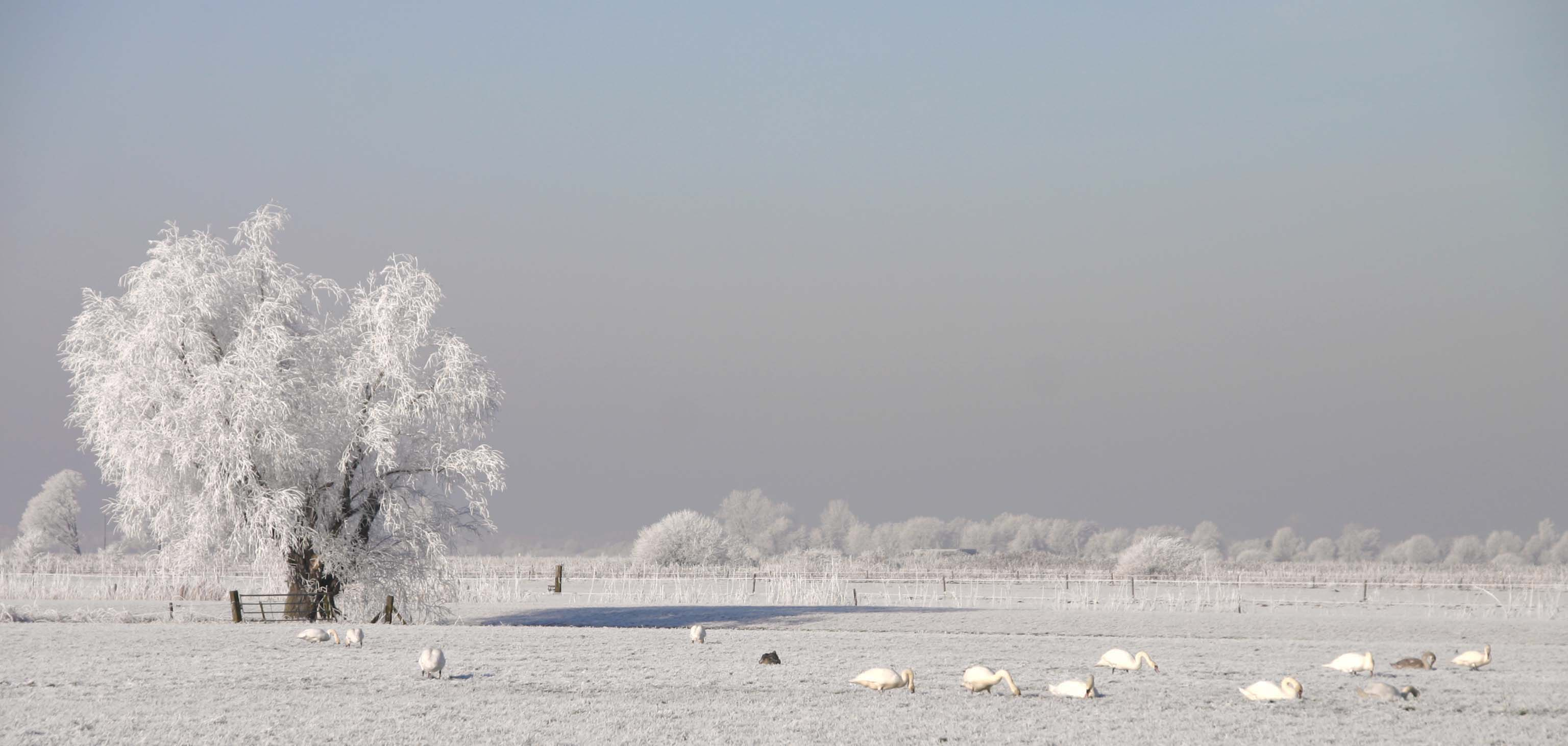 Winter landscape in the Southwestern part of the "Binnenveld" ("Innerfield") (between the Dutch towns Wageningen, Ede, Veenendaal and Rhenen) in The Netherlands.